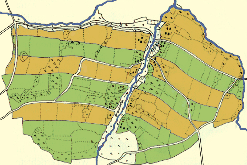 Map of Waldhufensiedlung Mosebeck near Detmold, Germany